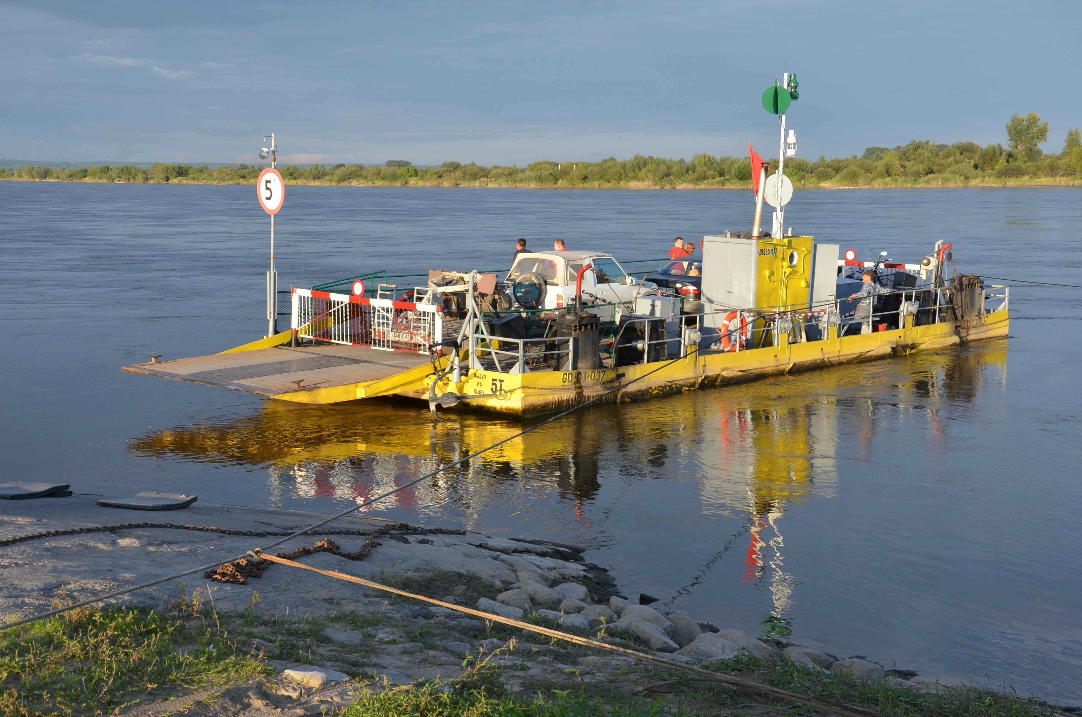 Approx. winter break - 4 month